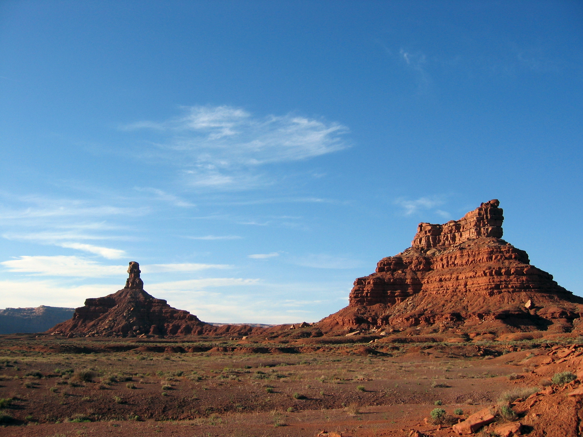 Rock formations in Valley of the Gods in Utah.